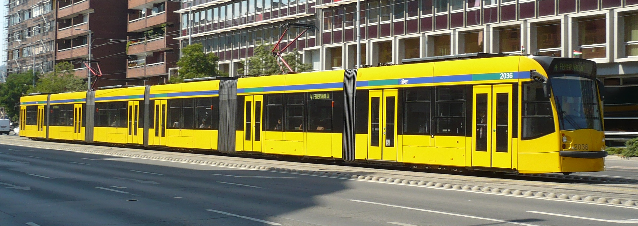 Combino Supra 2036 tram in Budapest, on line 4 at 20th August.